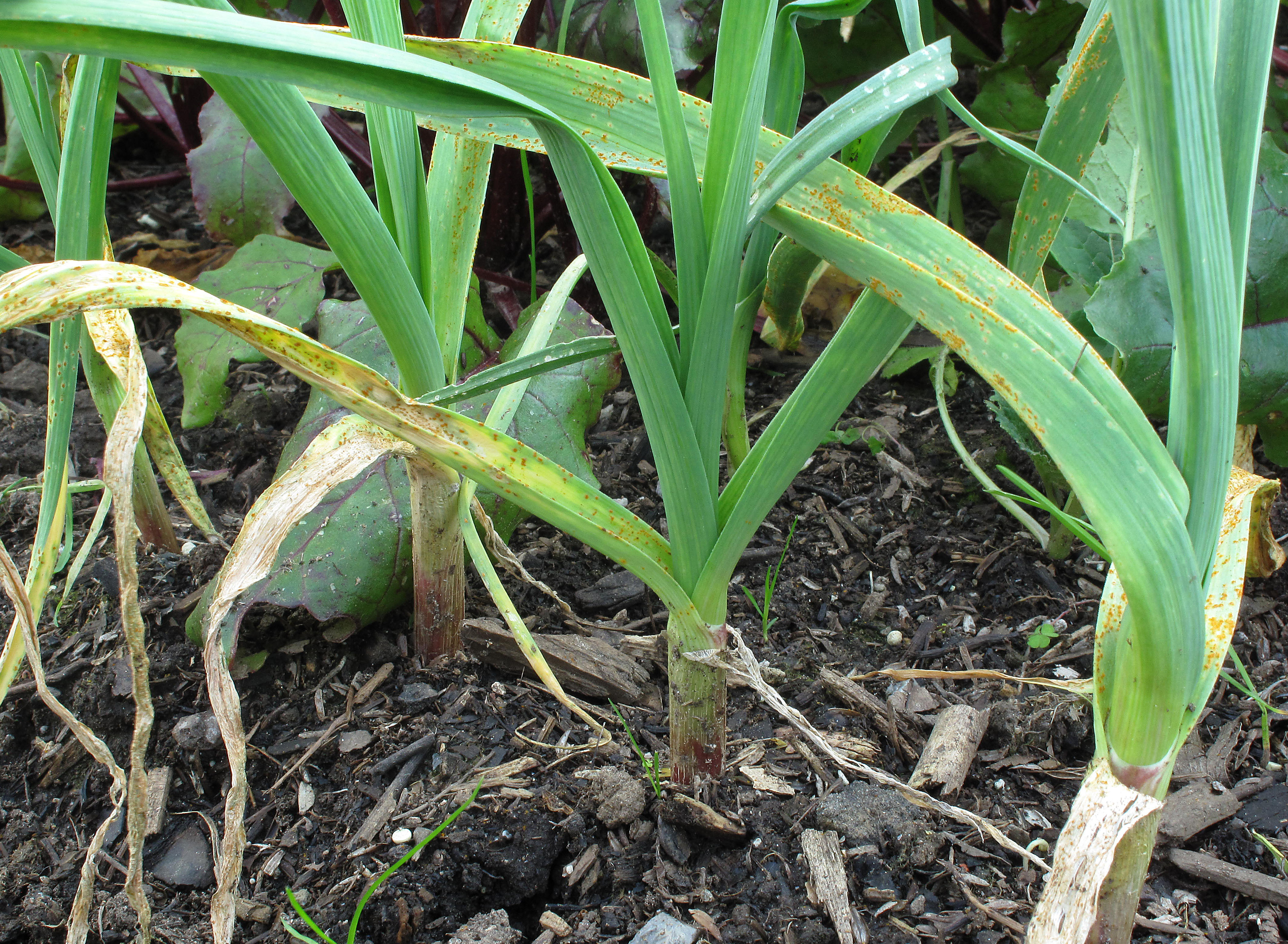 Rust on young garlic plants after record-breaking rains (6 days almost nonstop) in Los Angeles, California. A row of beets is in the background.